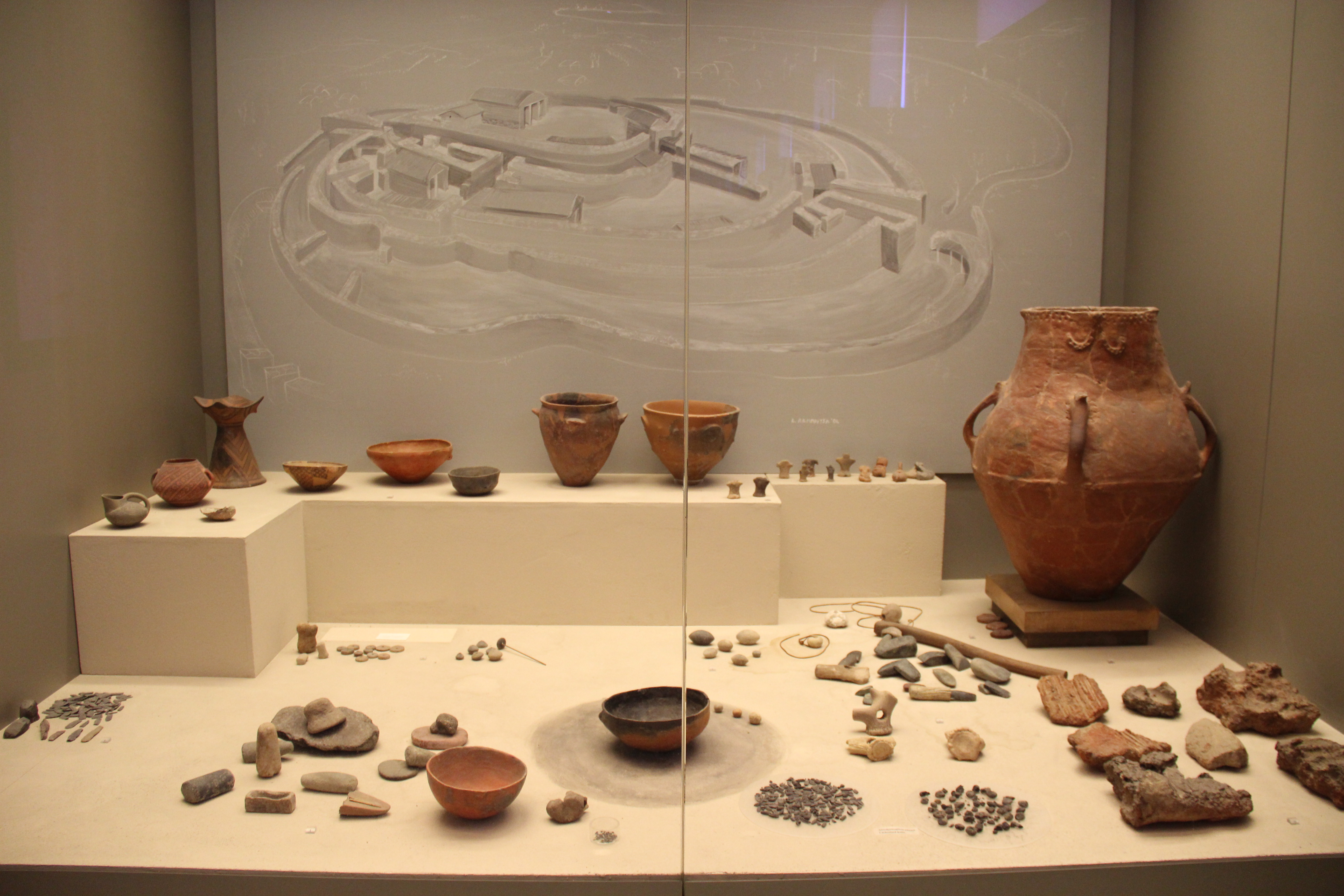 Greek Prehistory Gallery, National Museum of Archaeology, Athens, Greece. Complete indexed photo collection at .